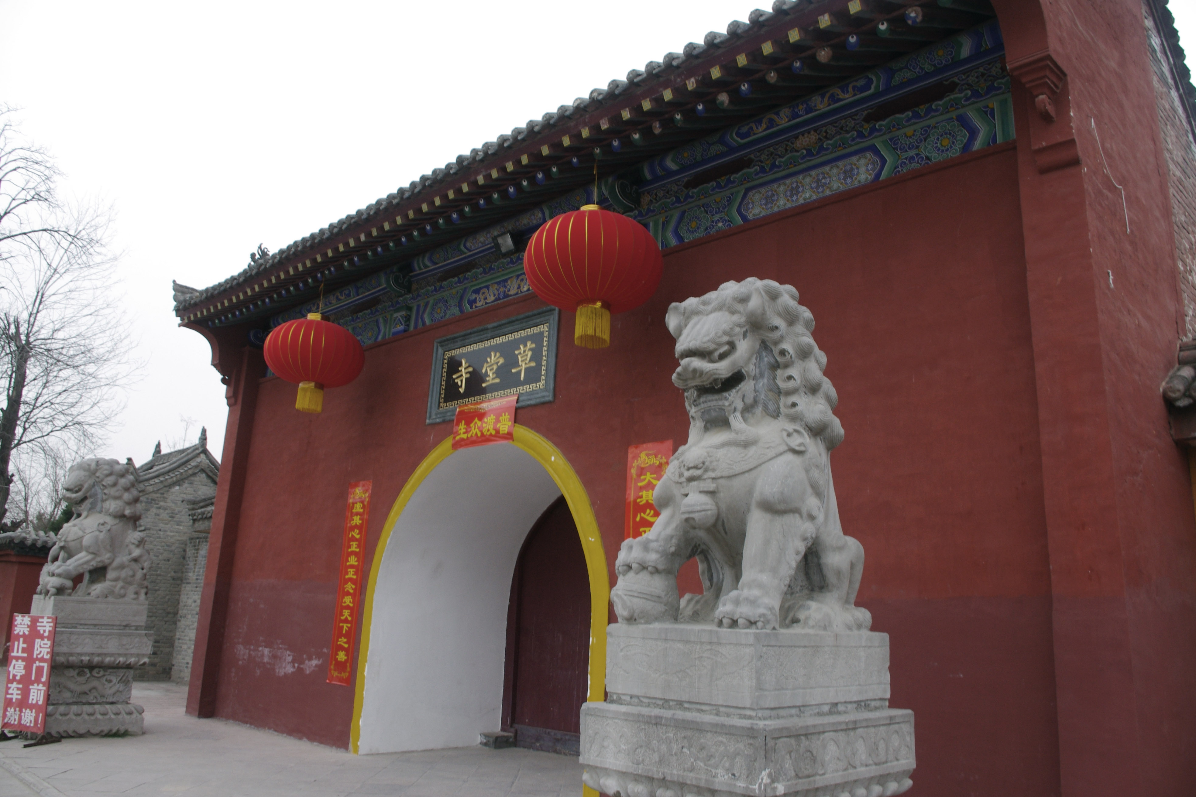 Gate of the Caotang temple south of Xi'an.